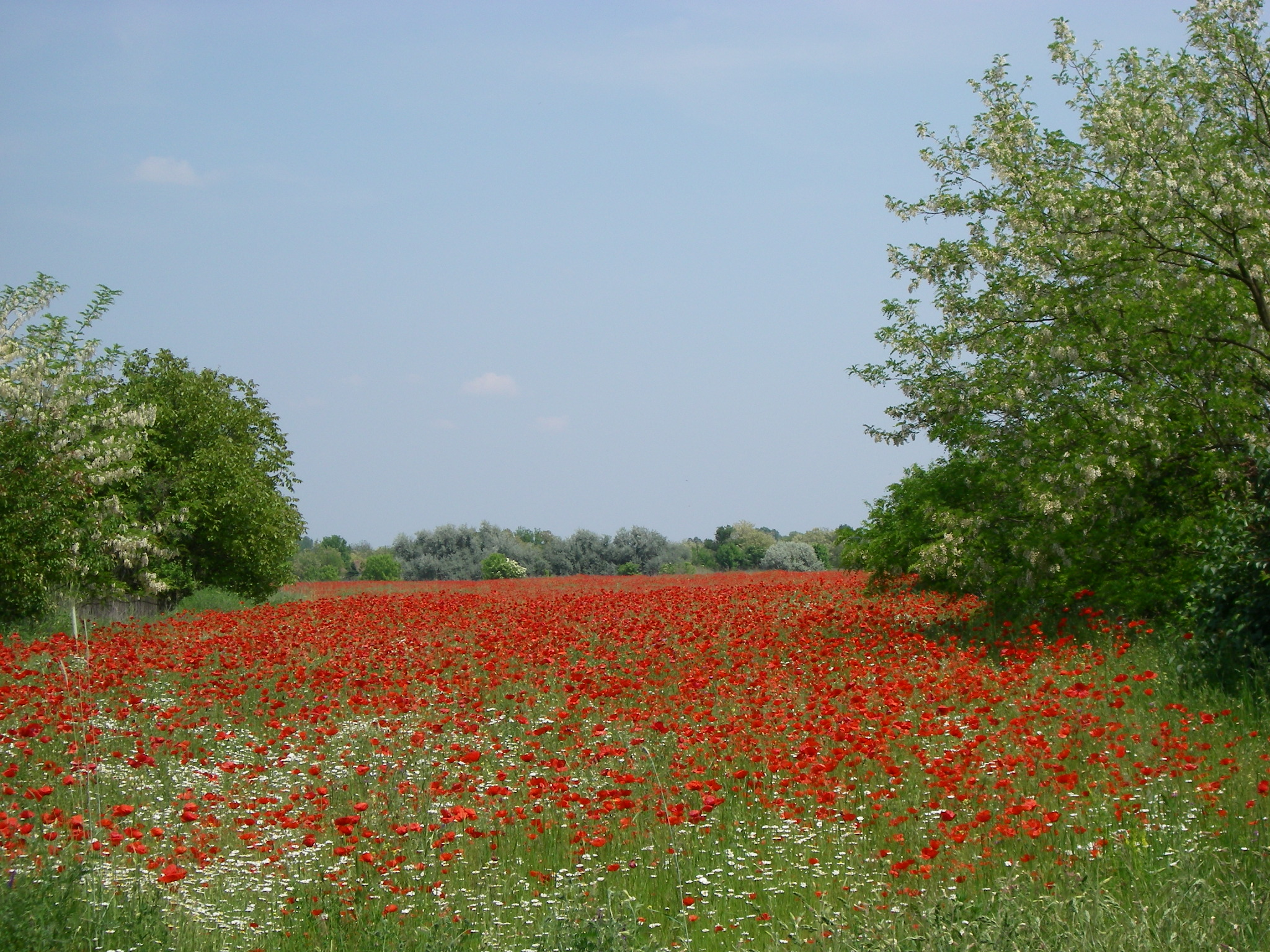 Red poppy